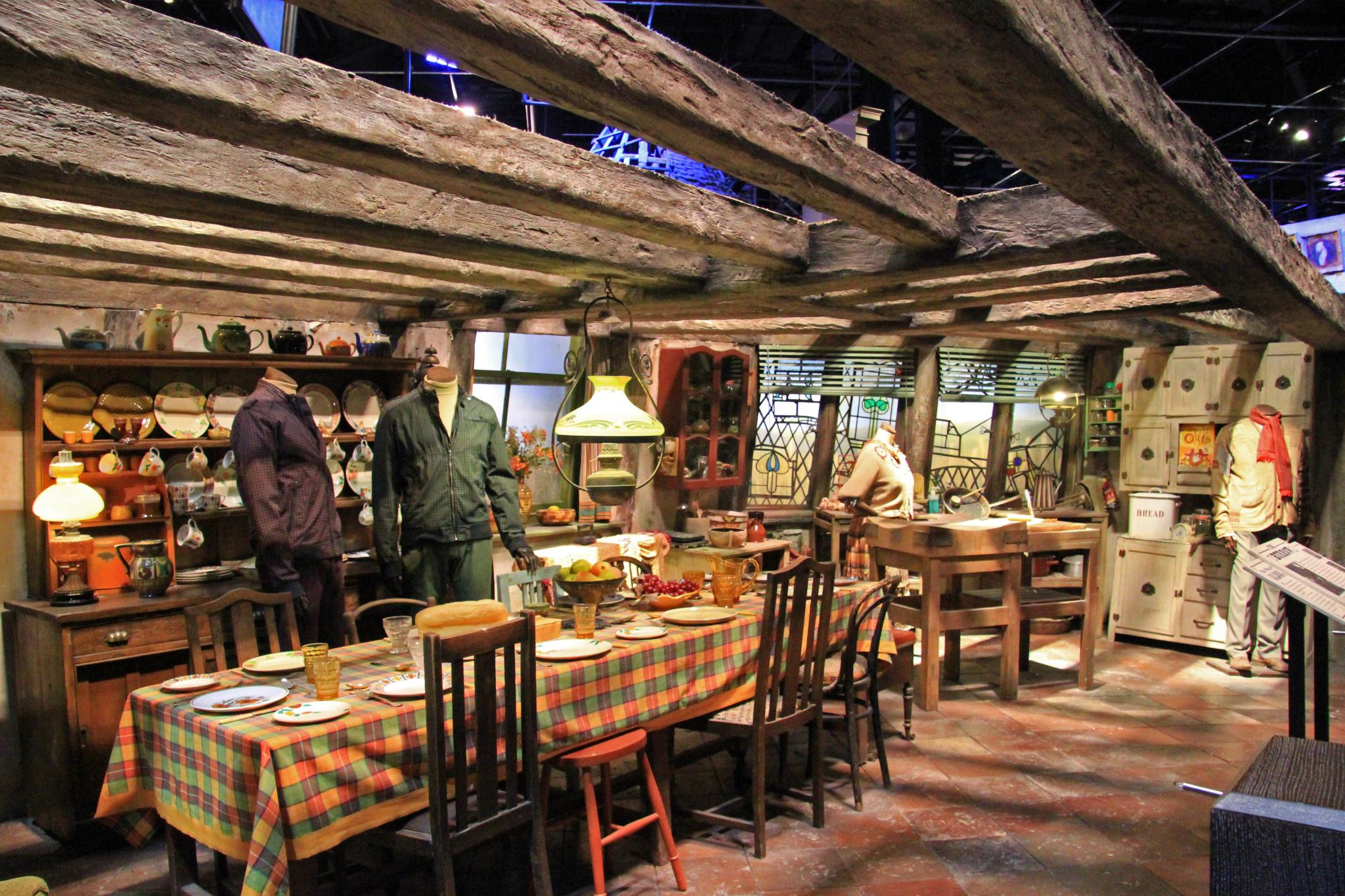 Warner Bros. Studio Tour London: The Making of Harry Potter.